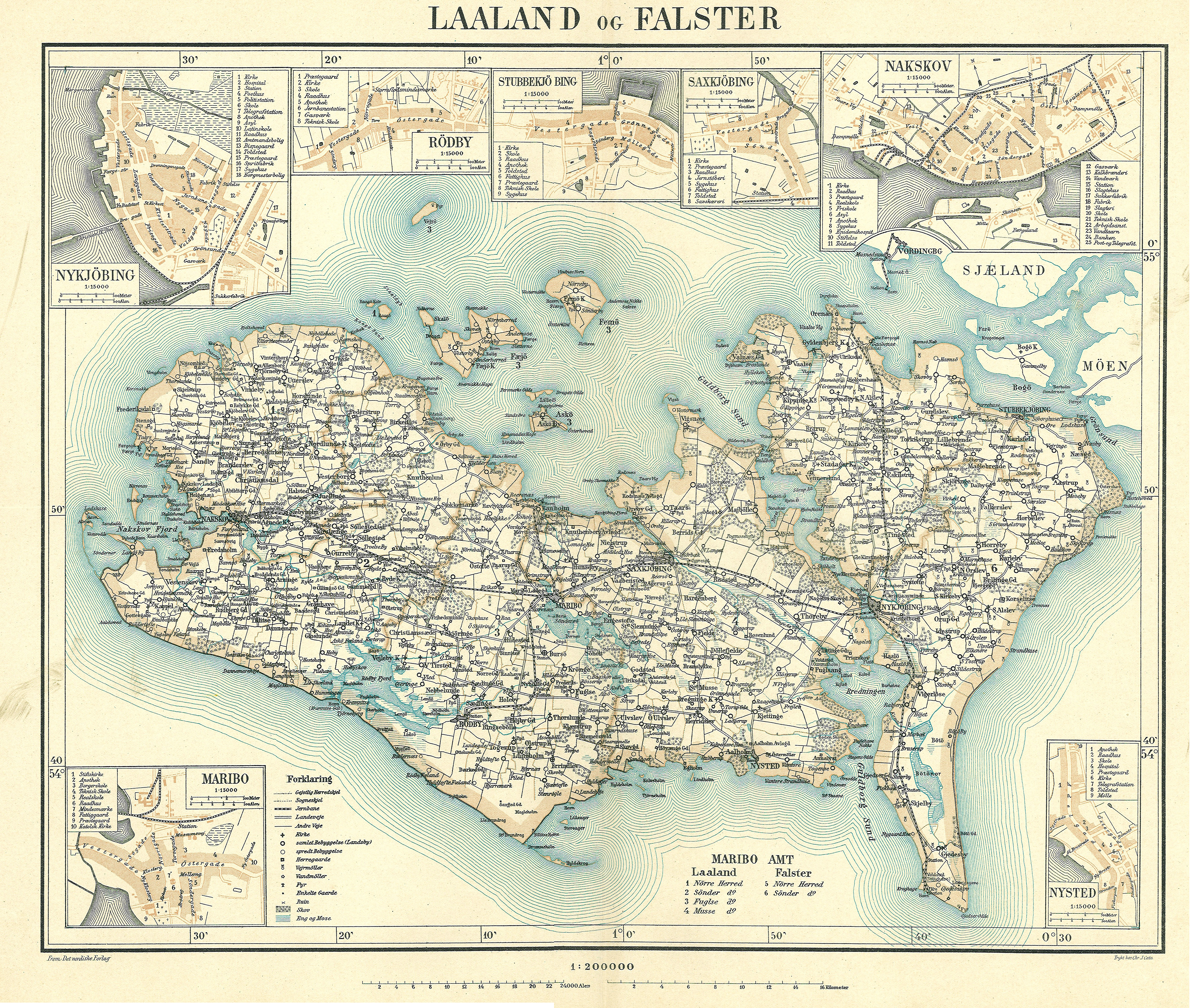 Map of Lolland and Falster in Denmark